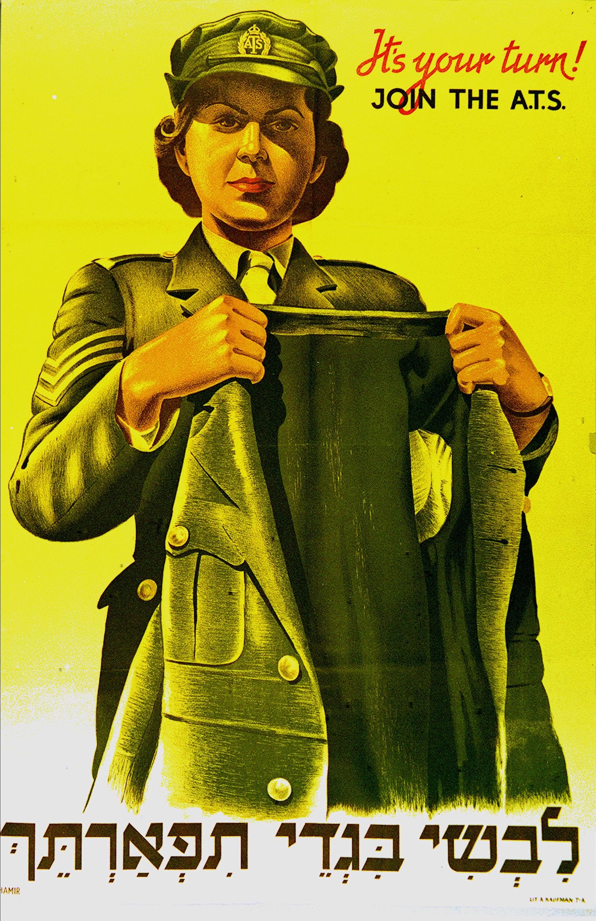 1944 POSTER ADVOCATING ENLISTMENT JEWS FROM EREC ISRAEL TO THE BRITISH ARMY.